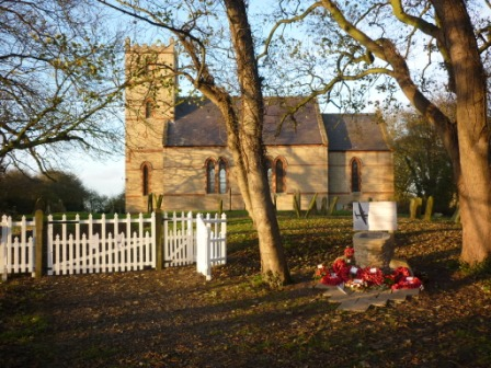 Holmpton, East Riding of Yorkshire, England.Memorial to the crew of Avro Manchester L7523 on the day of it's dedication.